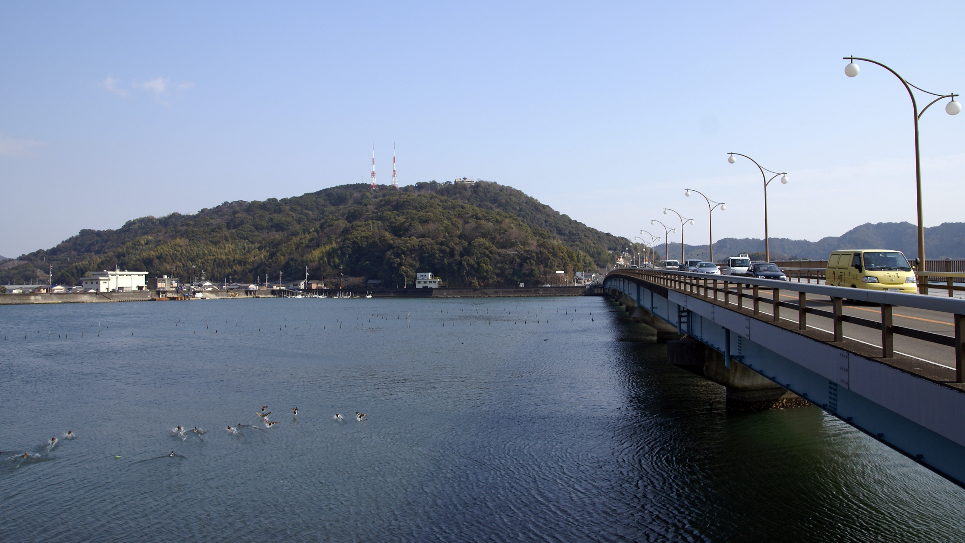 Mt. Godaisan in Kochi, Kochi prefecture, Japan